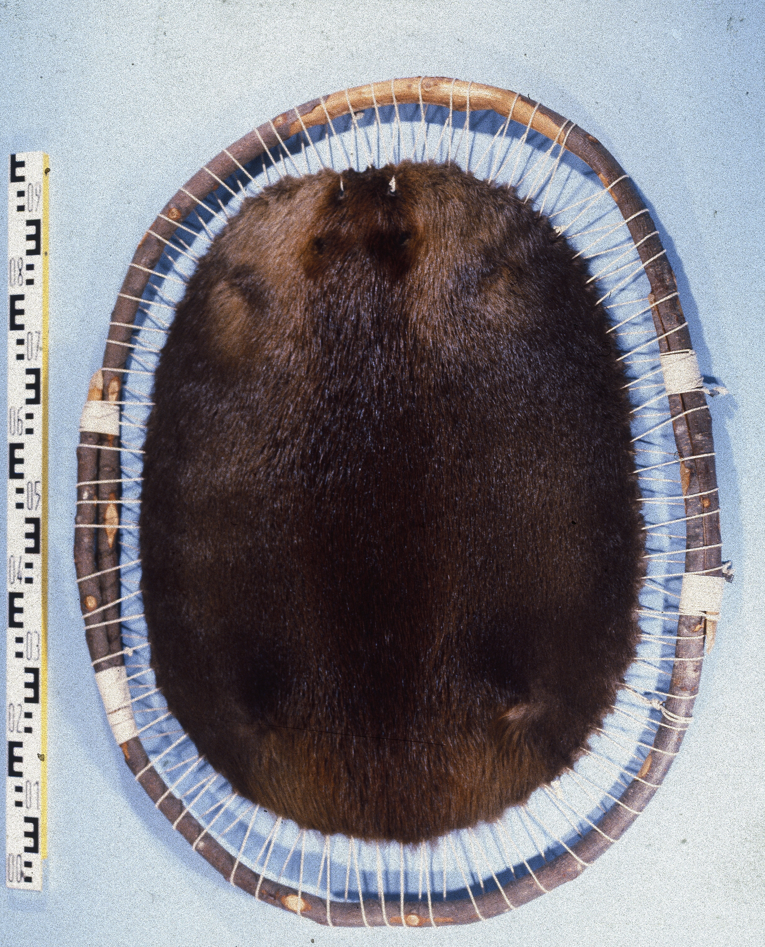 Canadian beaver (Castor fiber canadensis). Fur skin collection, Bundes-Pelzfachschule, Frankfurt/Main, Germany